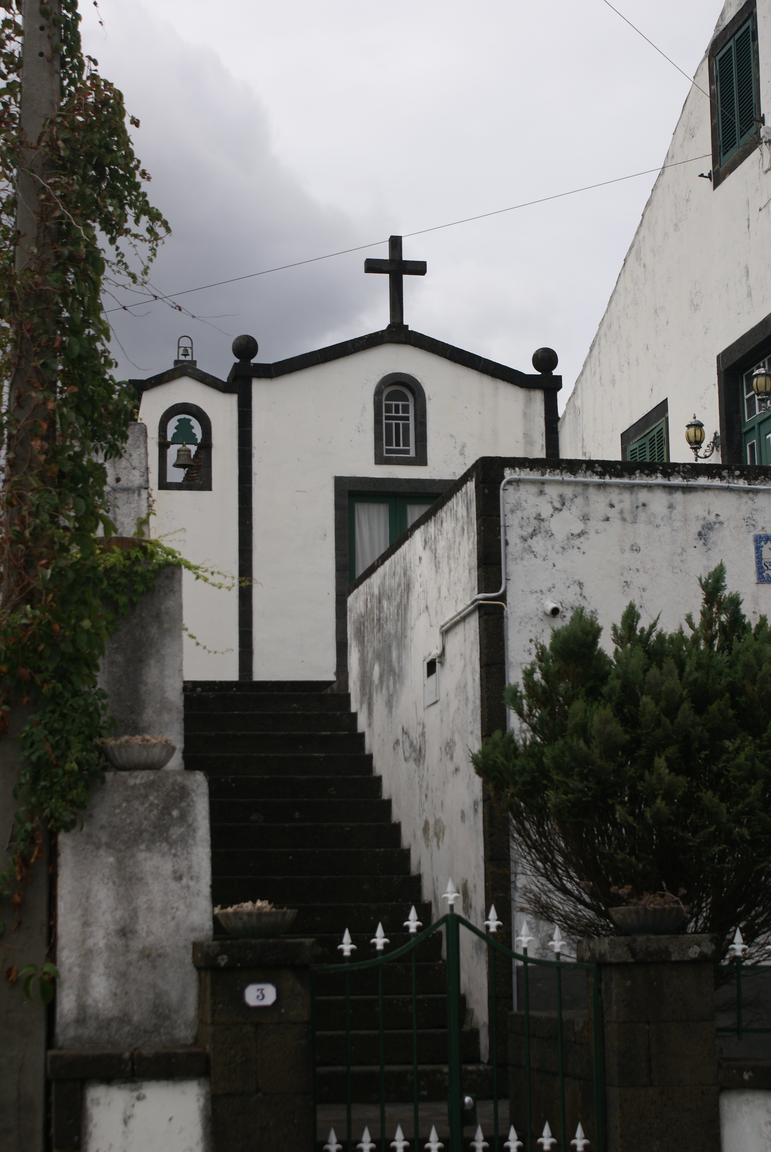 Ermida de Santo Expédito, concelho de São Roque do Pico, ilha do Pico, Açores, Portugal